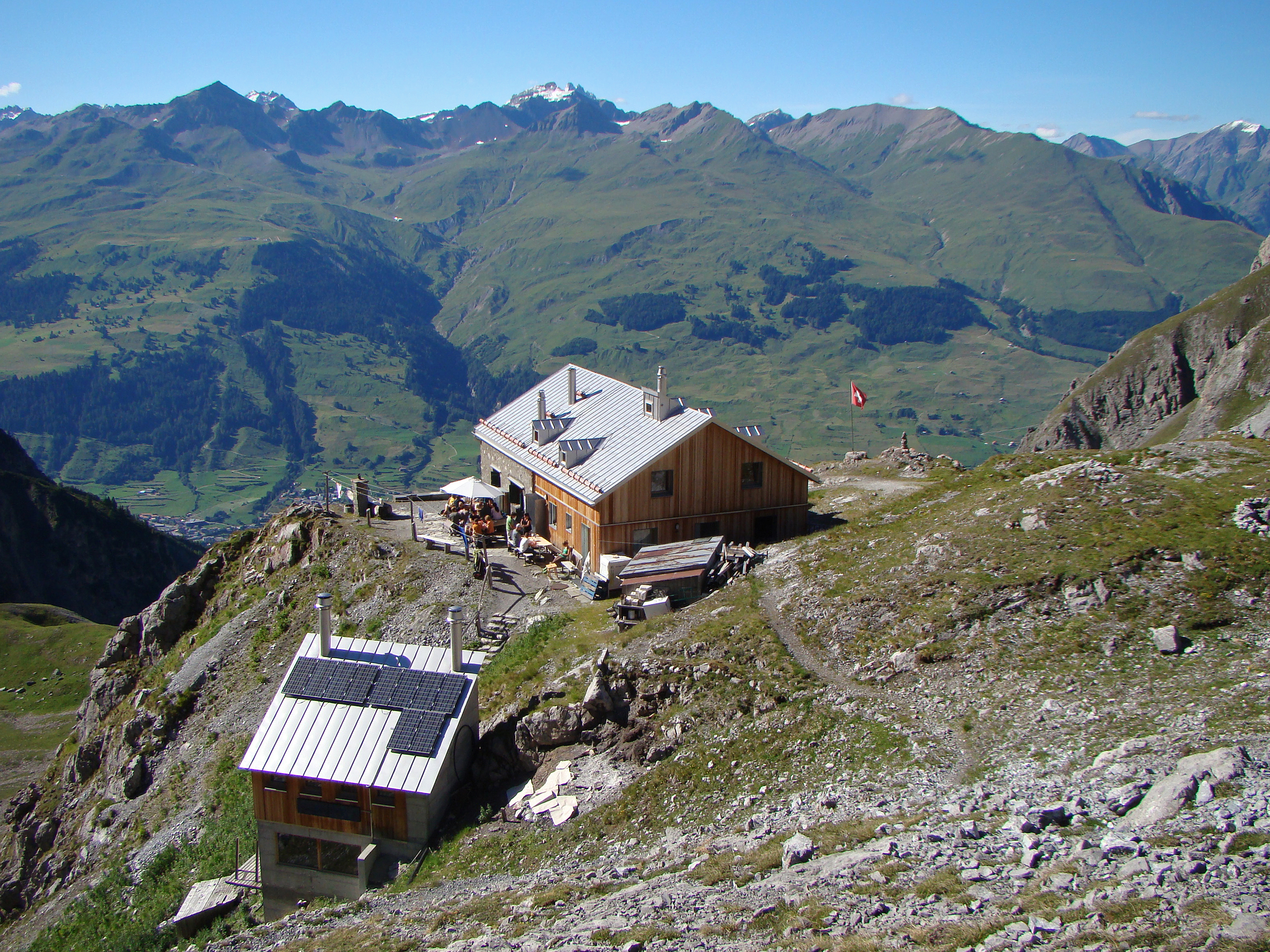 Chamonna Lischana CAS